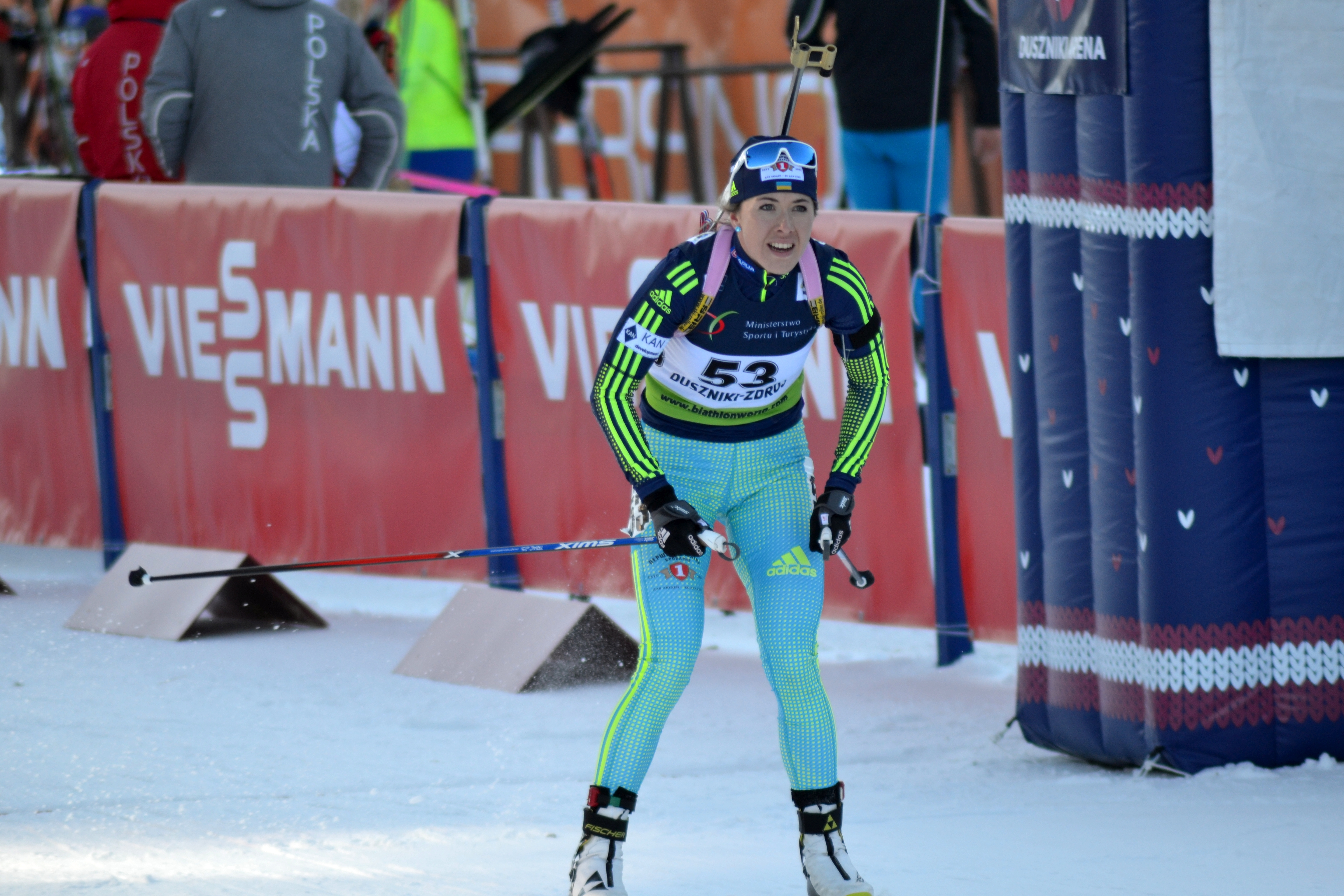 Open European Championships Biathlon 2017, Sprint Women's race, held on January 27th.